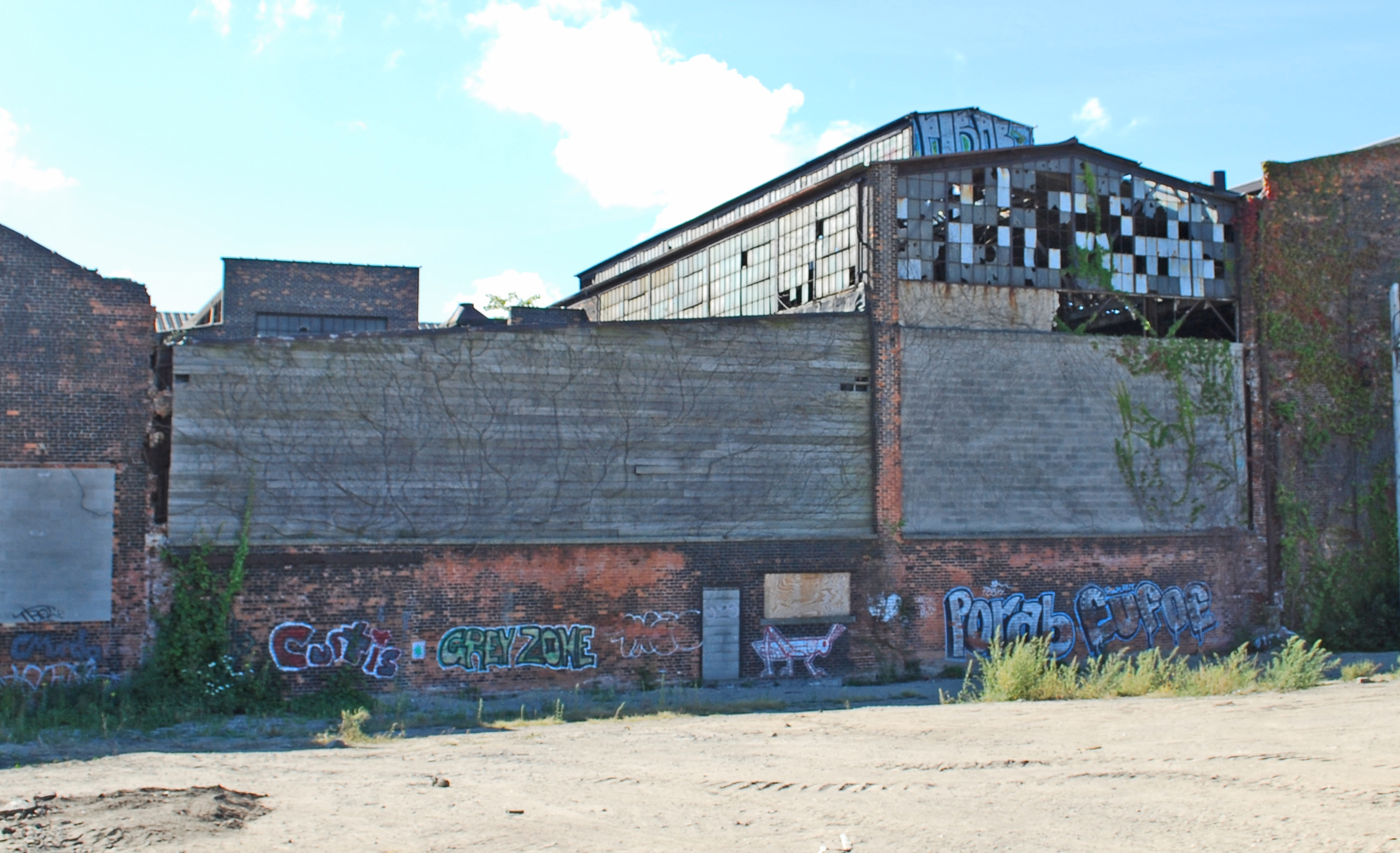 Detroit Dry Dock Engine Works chipping room, machine shop addition, and shipping-receiving